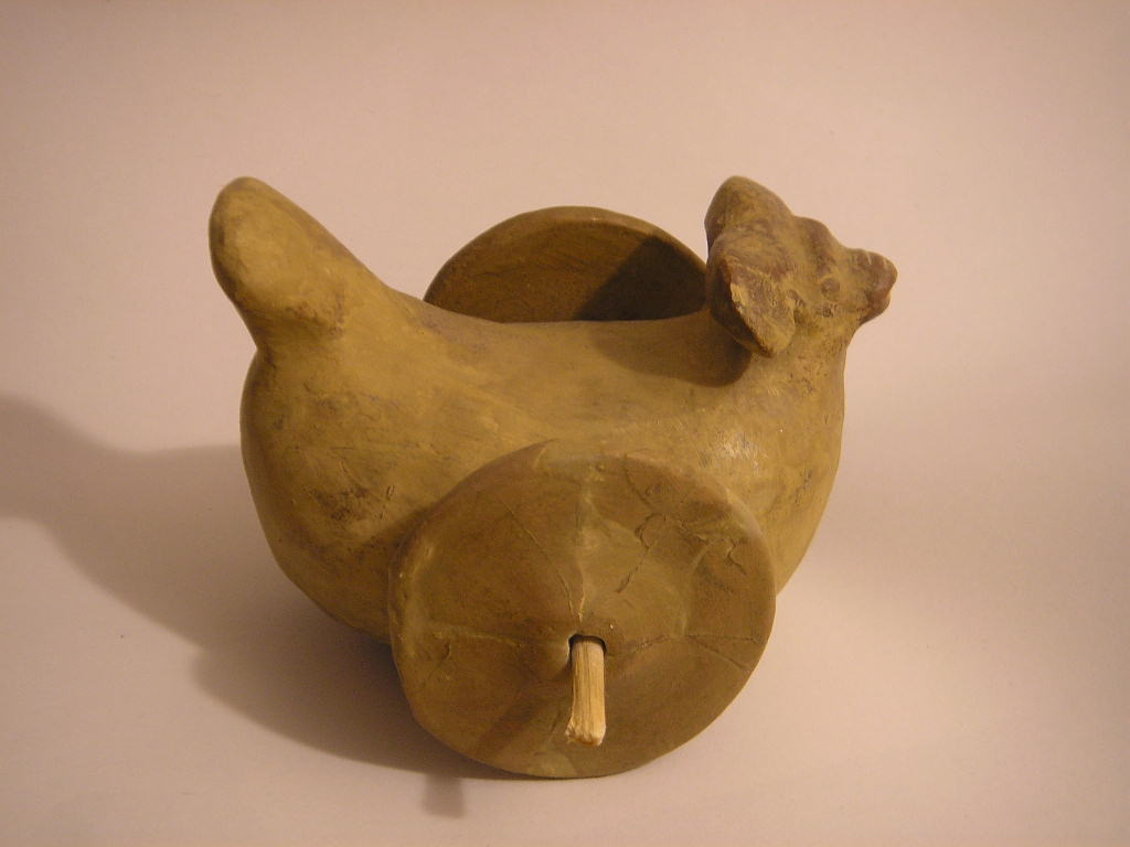 Children's toy from Mohenjo-daro. Located in the National Museum in New Delhi.